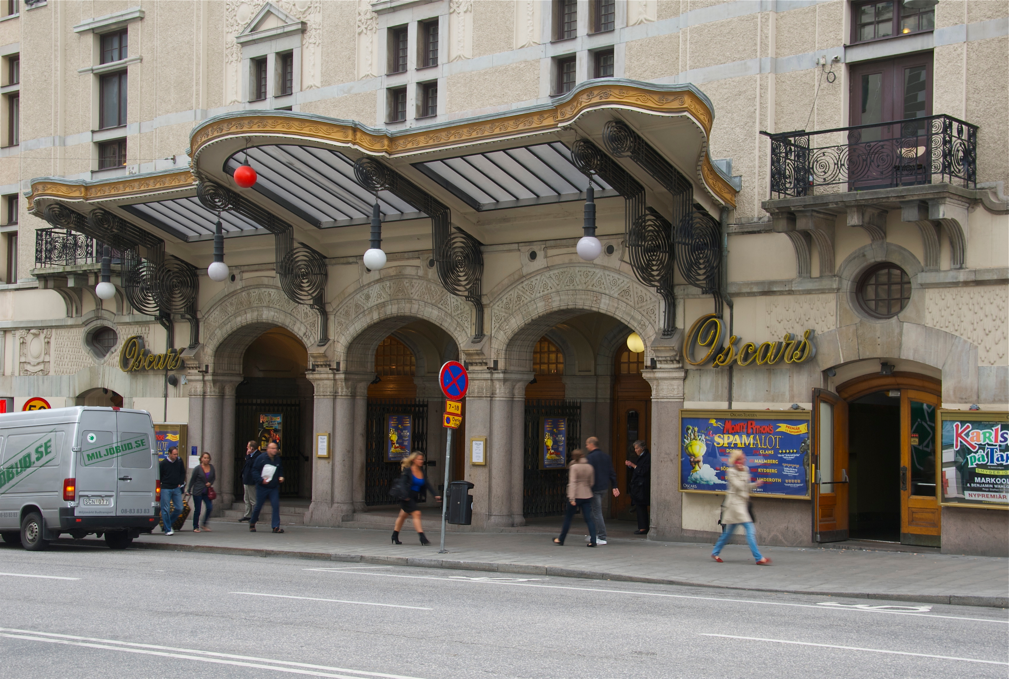 Oscarsteatern.